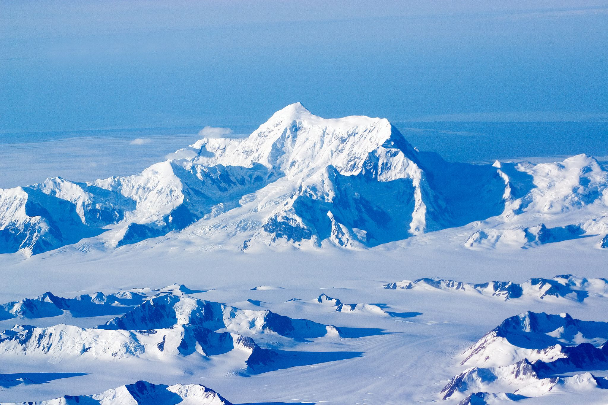 Mount Saint Elias shot from 36000 feet Happened to wake up while flying over this mountain range on a beautifully clear day